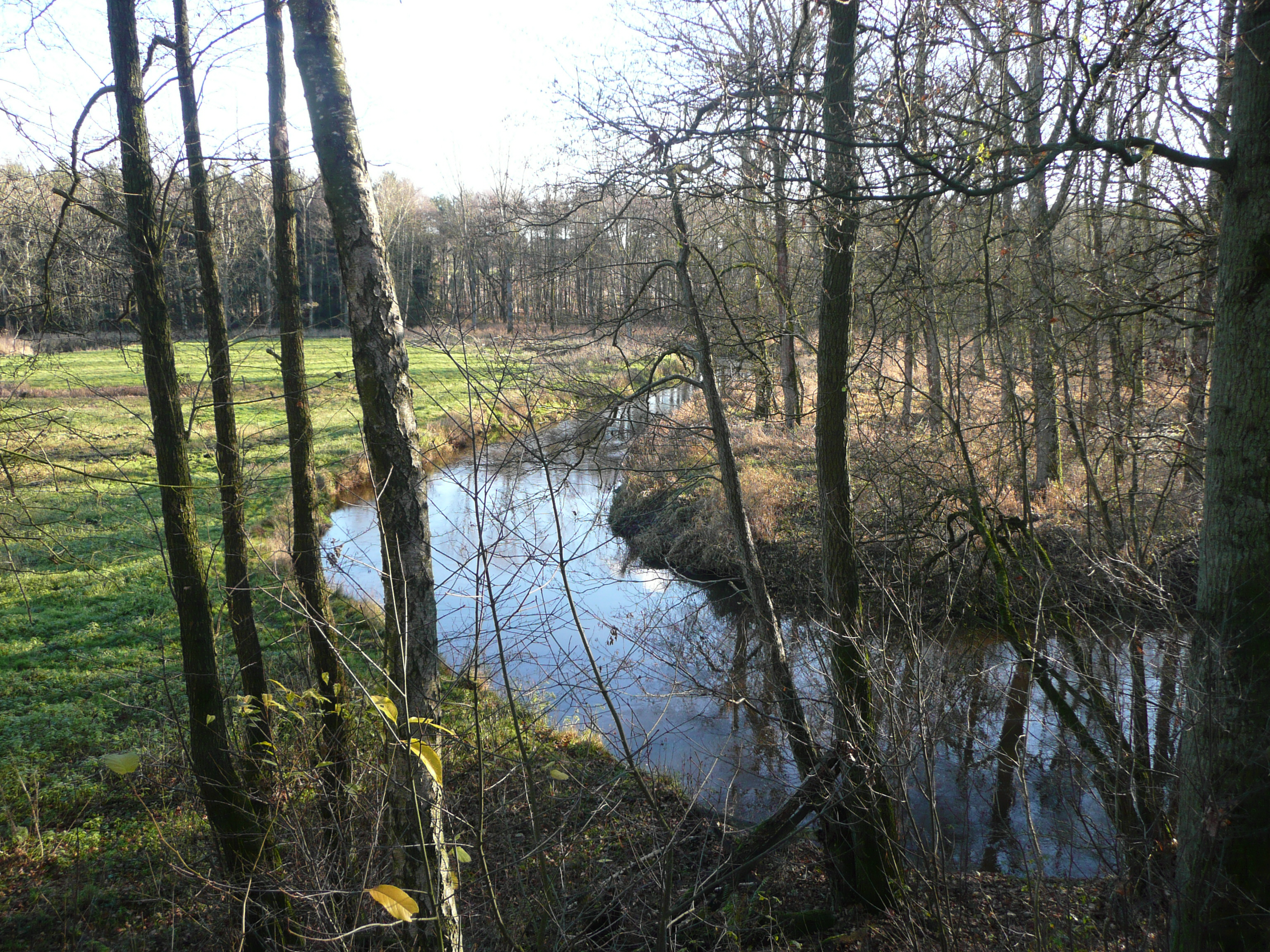 River Boehme seen from the ancient Huenenburg near Bomlitz, northern Germany